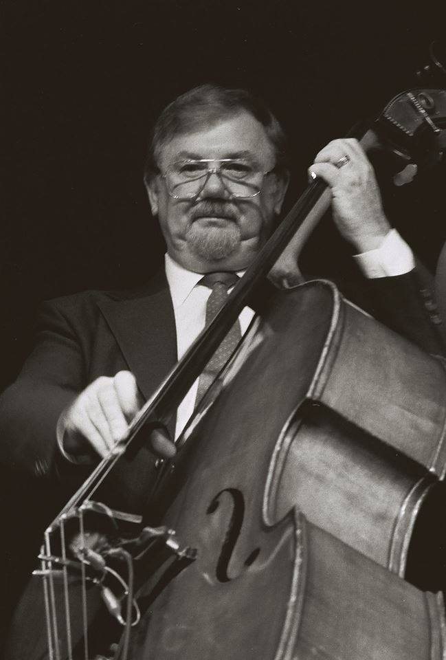 Carson Smith, bass player